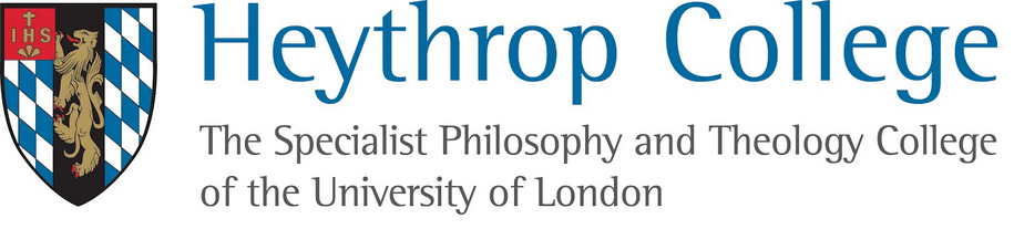 Logo of Heythrop College